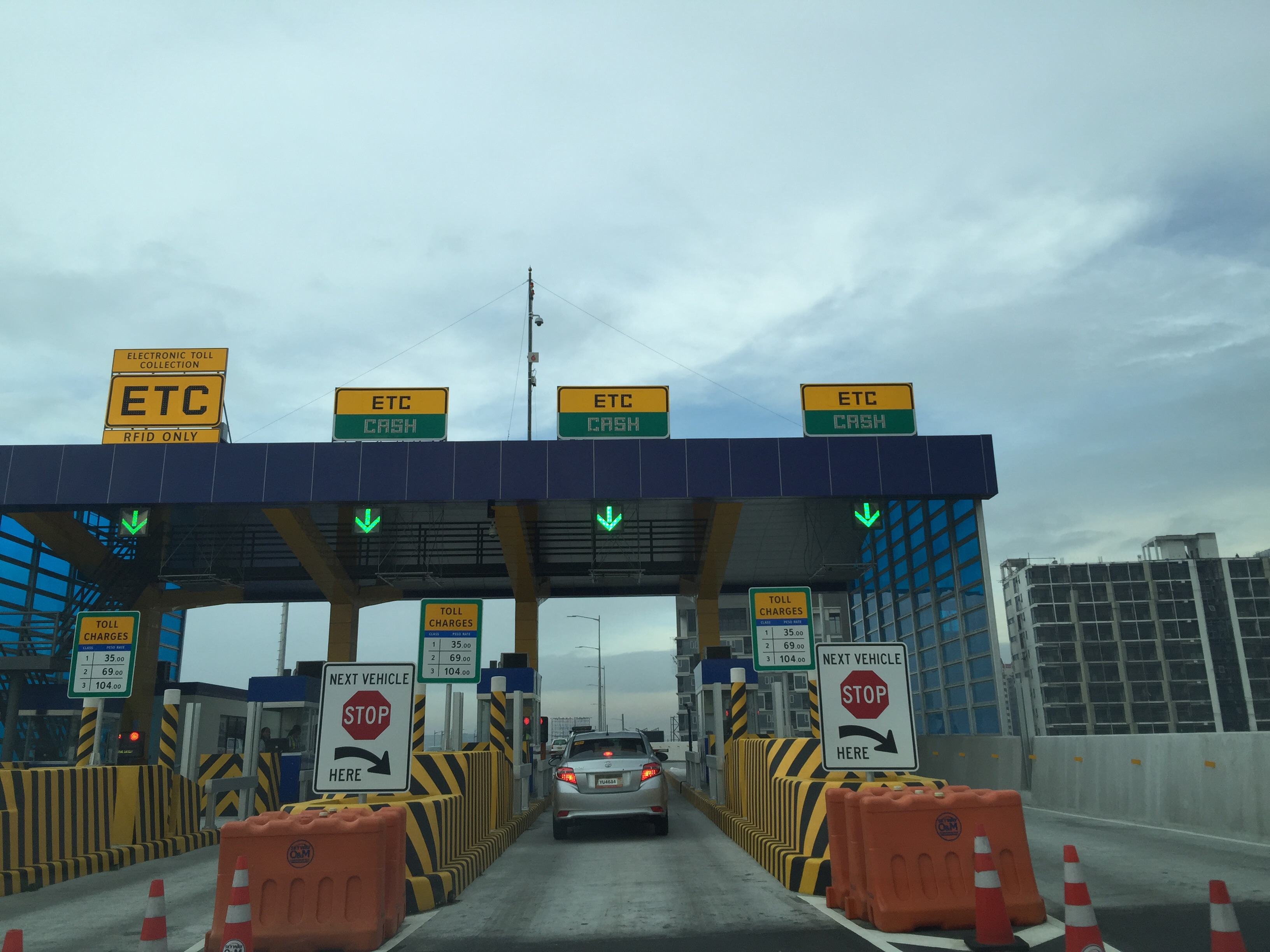 NAIA Expressway toll booth at the NAIA Terminals 1&2 onramp in Parañaque, Metro Manila